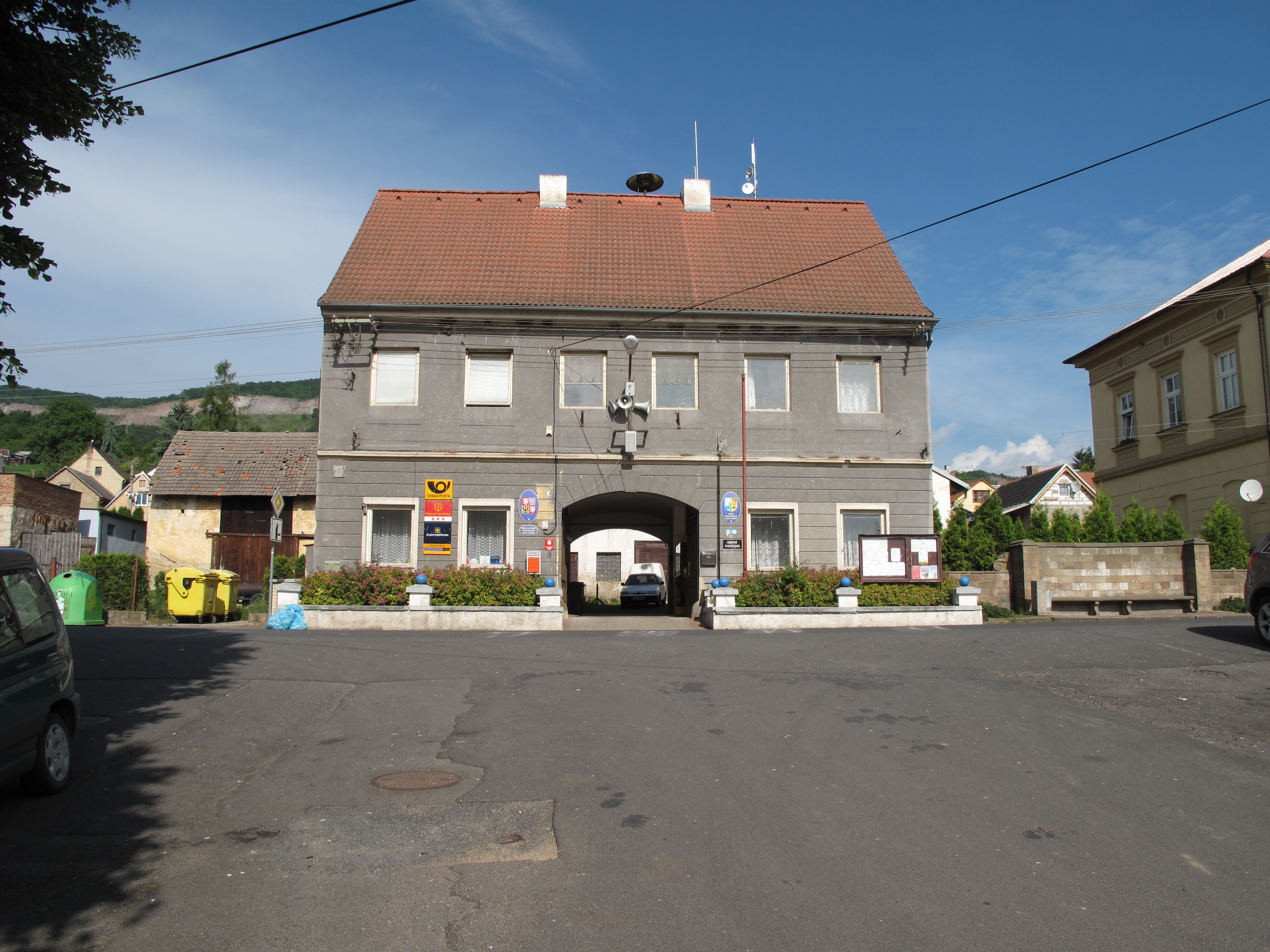 Municipal office in Prackovice nad Labem village, Litoměřice District, Czech Republic.